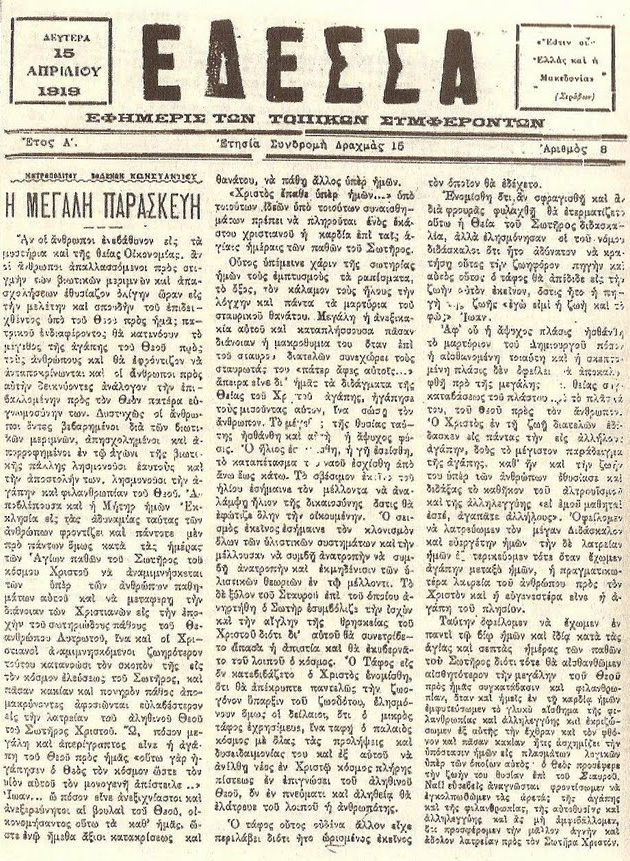 Edessa 15 April 1919